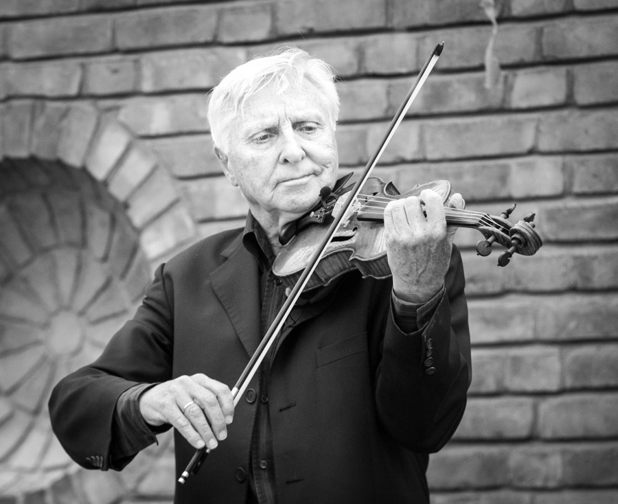 Arve Tellefsen at the Borggården stage in the Vigeland Park. The concert was part of Piknik i Parken and took place on 23. June 2017 in Oslo. Lineup: Arve Tellefsen (violin), Unidentified (guitar), Raisa Bielenberg (vocal and dancer) and Anette Antal (dancer).